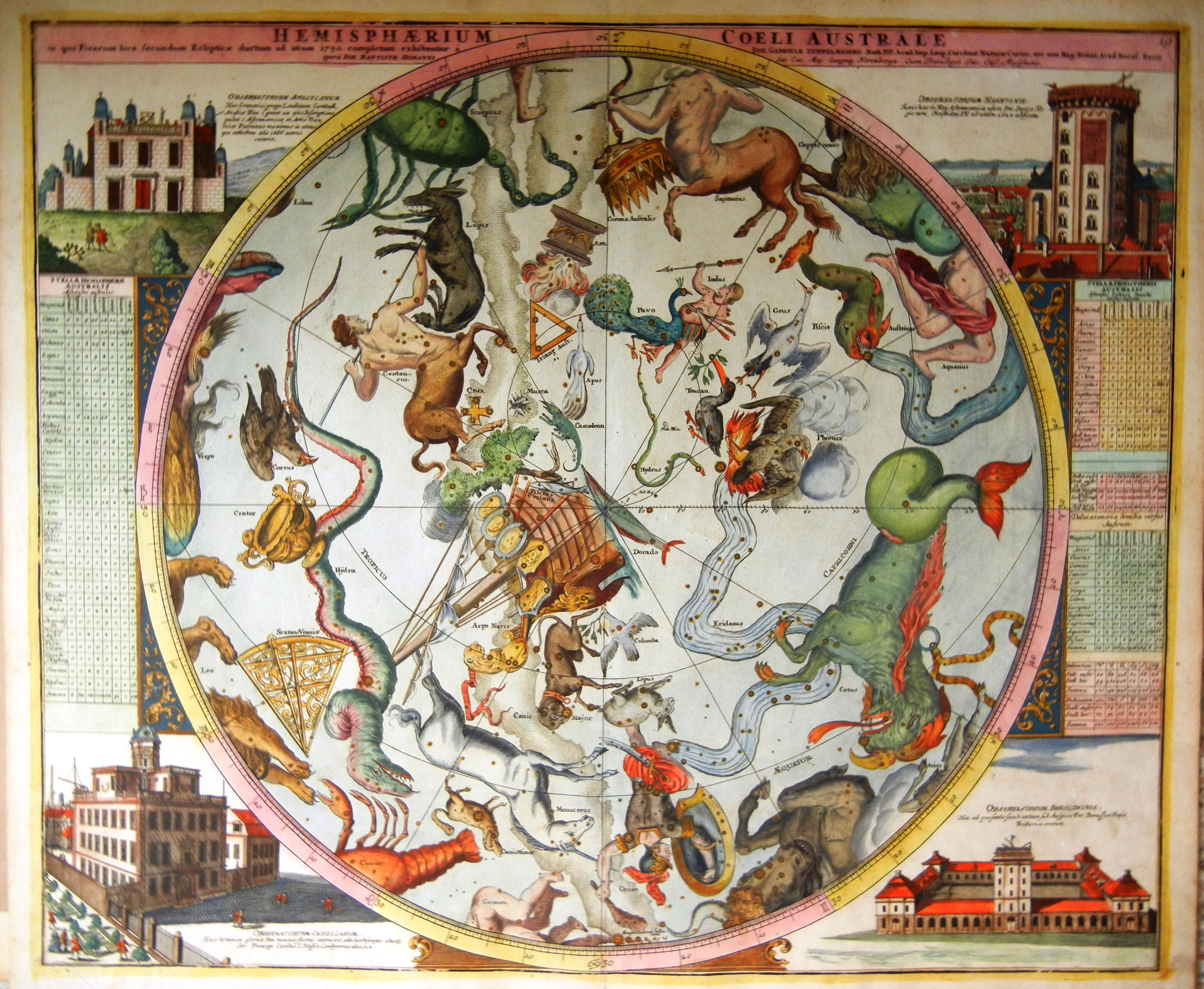 Johann Doppelmayr's map of the southern celestial hemisphere, c. 1730 titled: "Hemisphaerium Coeli Australe in quo Fixarum loca secundum Eclipticae ductum ad anum 1730."